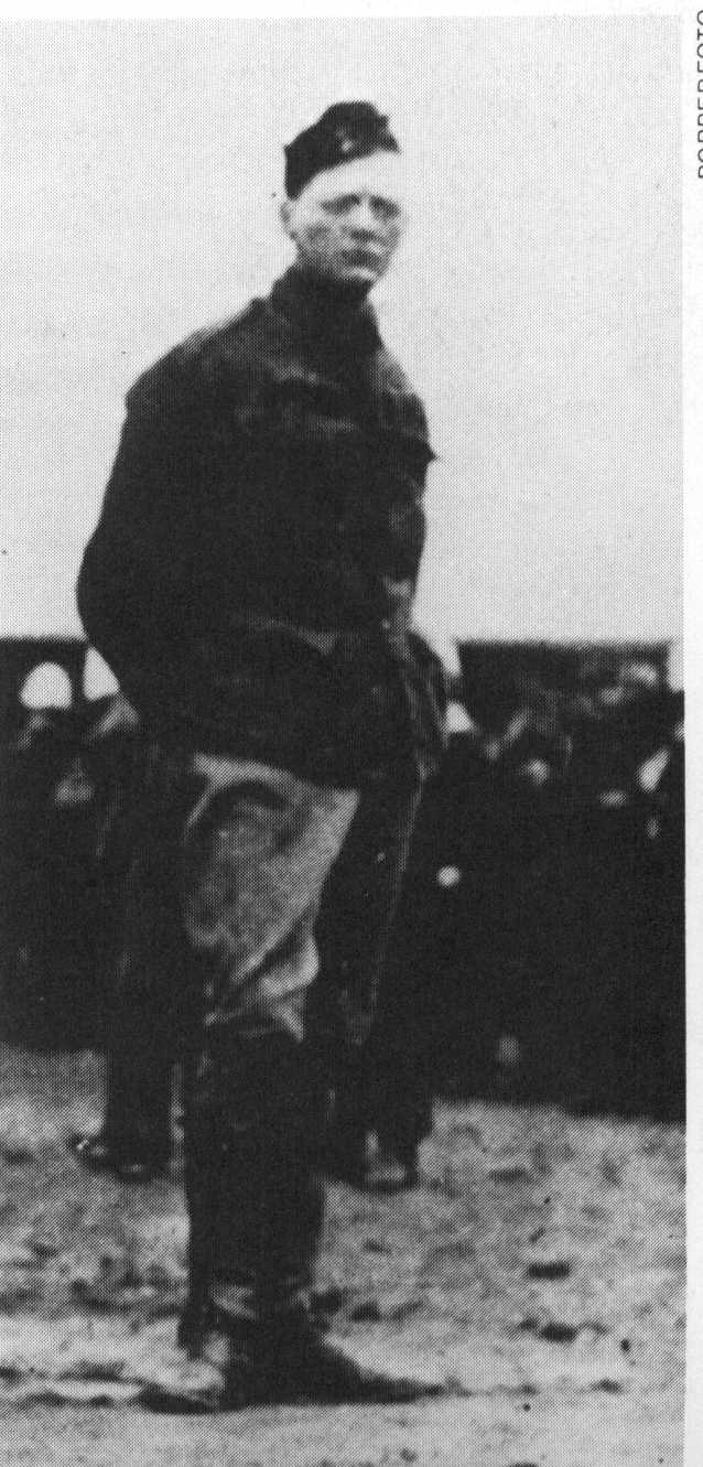 Winston Churchill as a prisoner of war in an interment camp in Pretoria during the early days of the South African War in 1899.